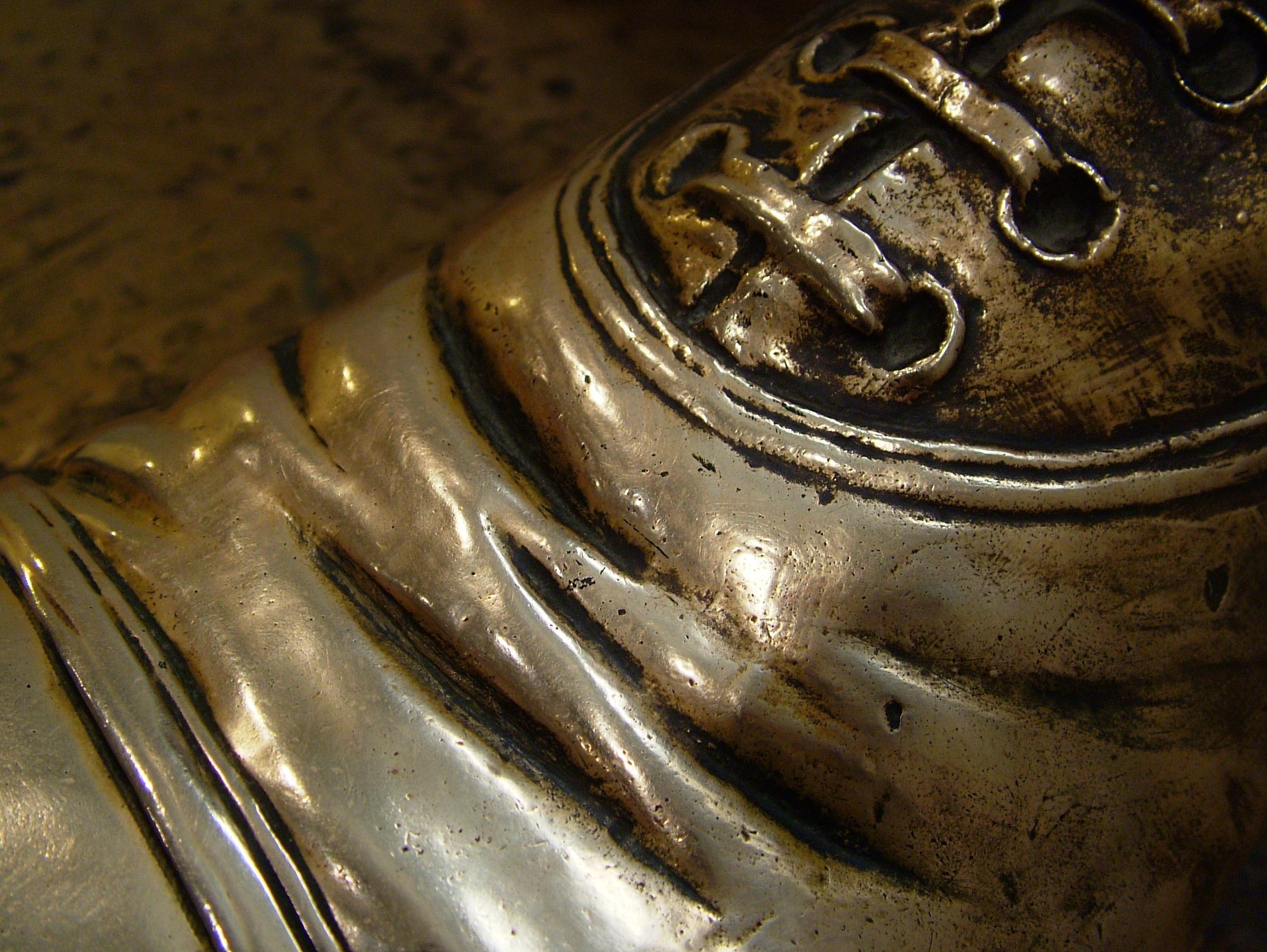 The toe of the Timothy Eaton statue in Toronto, Canada. For decades, the statue was a meeting spot in the Eaton's department store, and generations of Torontonians rubbed the toe for good luck. With the demise of the Eaton's chain, the statue now rests in the Royal Ontario Museum. Another casting of the statue sat in the Eaton's downtown Winnipeg store for decades, with Winnepers also rubbing the toe for luck. The Winnipeg casting now sits in the MTS Centre arena.